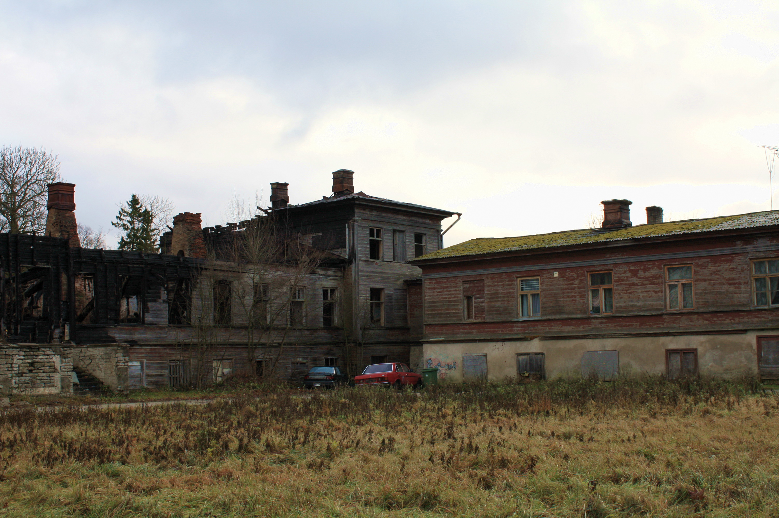 Kurna manor house